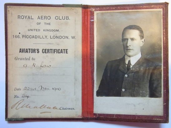 Royal Aero Club of the United Kingdom Aviator's Certificate number 34 issued to Archibald Reith Low on 22 November 1910